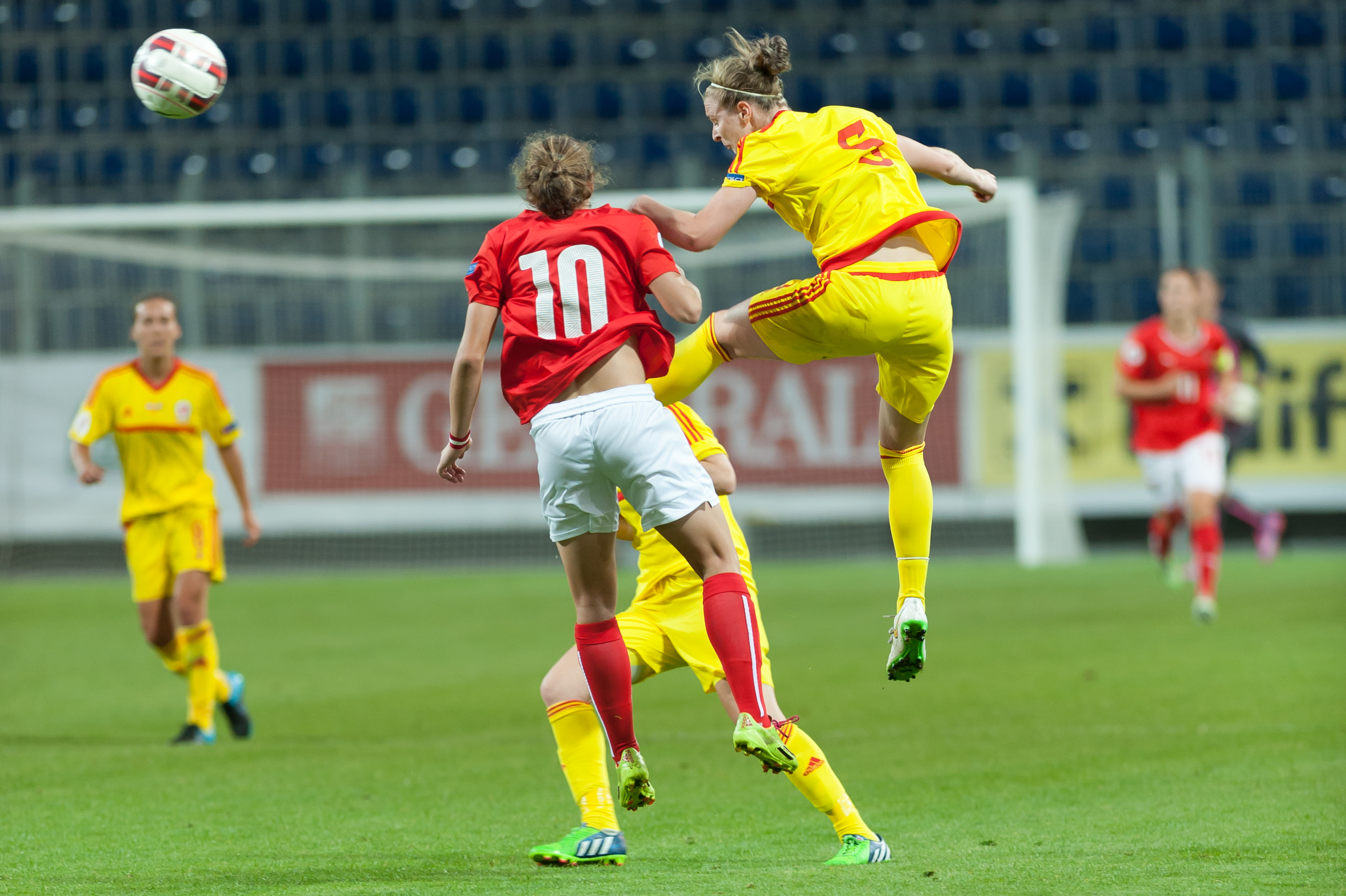 Women's Euro Qualification Austria vs. Wales, 2015-09-22, St. Pölten, Lower Austria